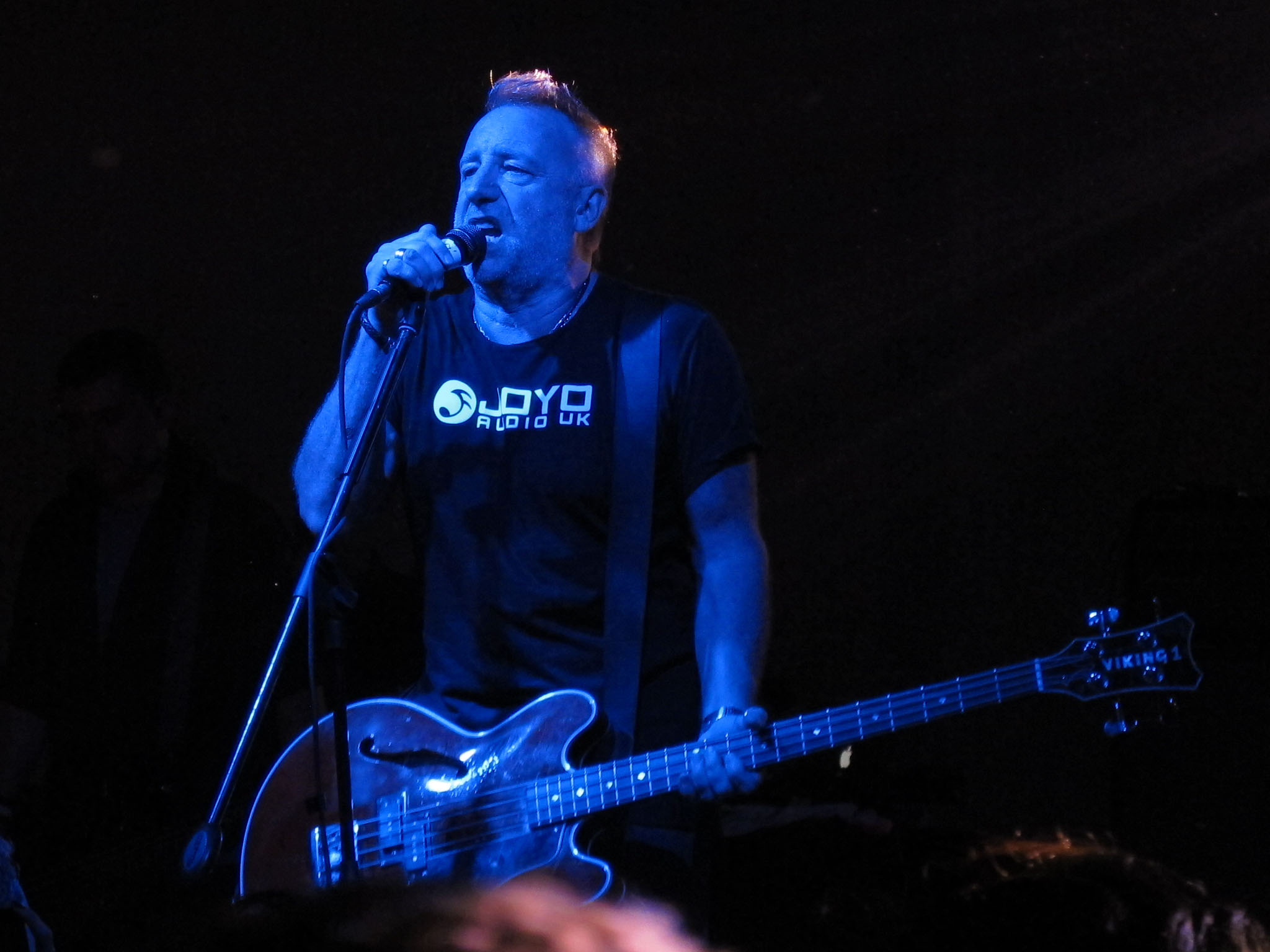 Peter Hook live, Chile 2014